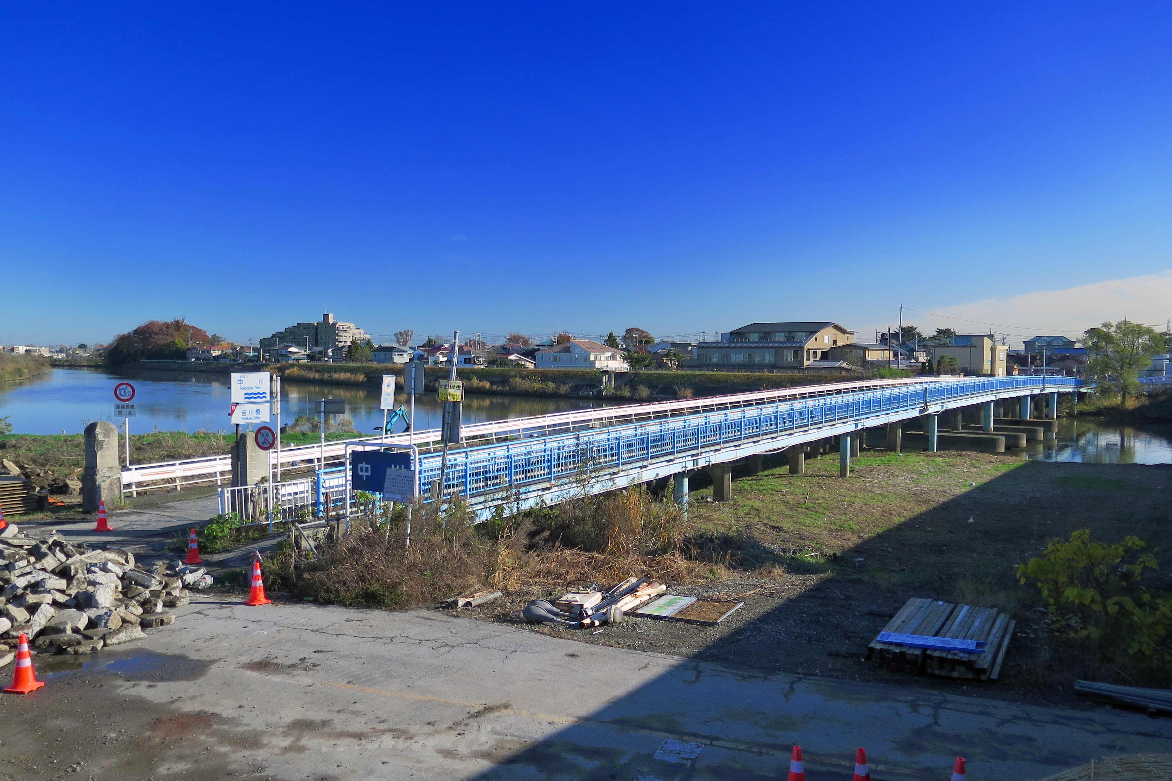 Yoshikawa Bridge Koshigaya City, Saitama prefecture, Japan